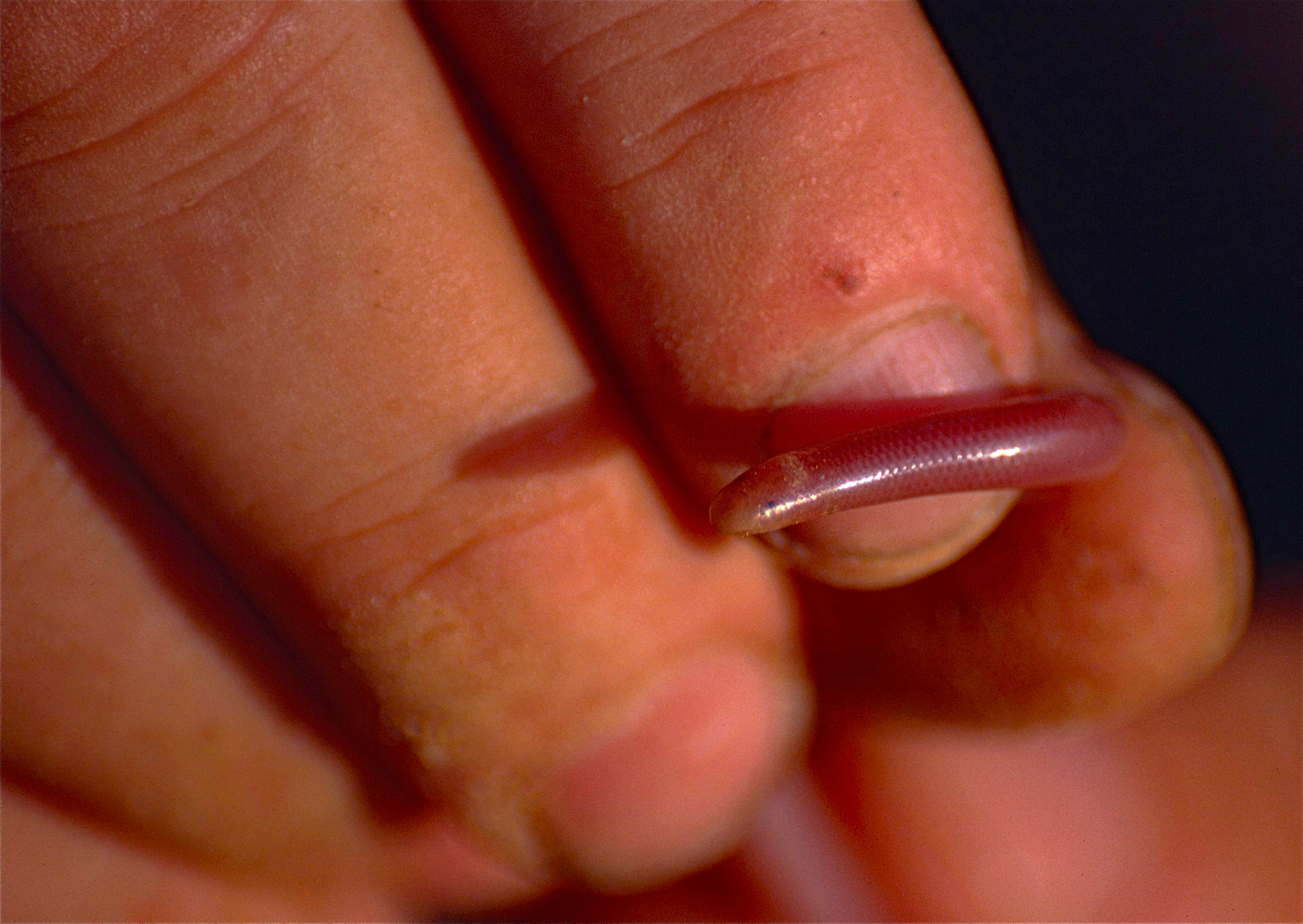 Isalo NP, MADAGASCAR Scanned Slide from 1998